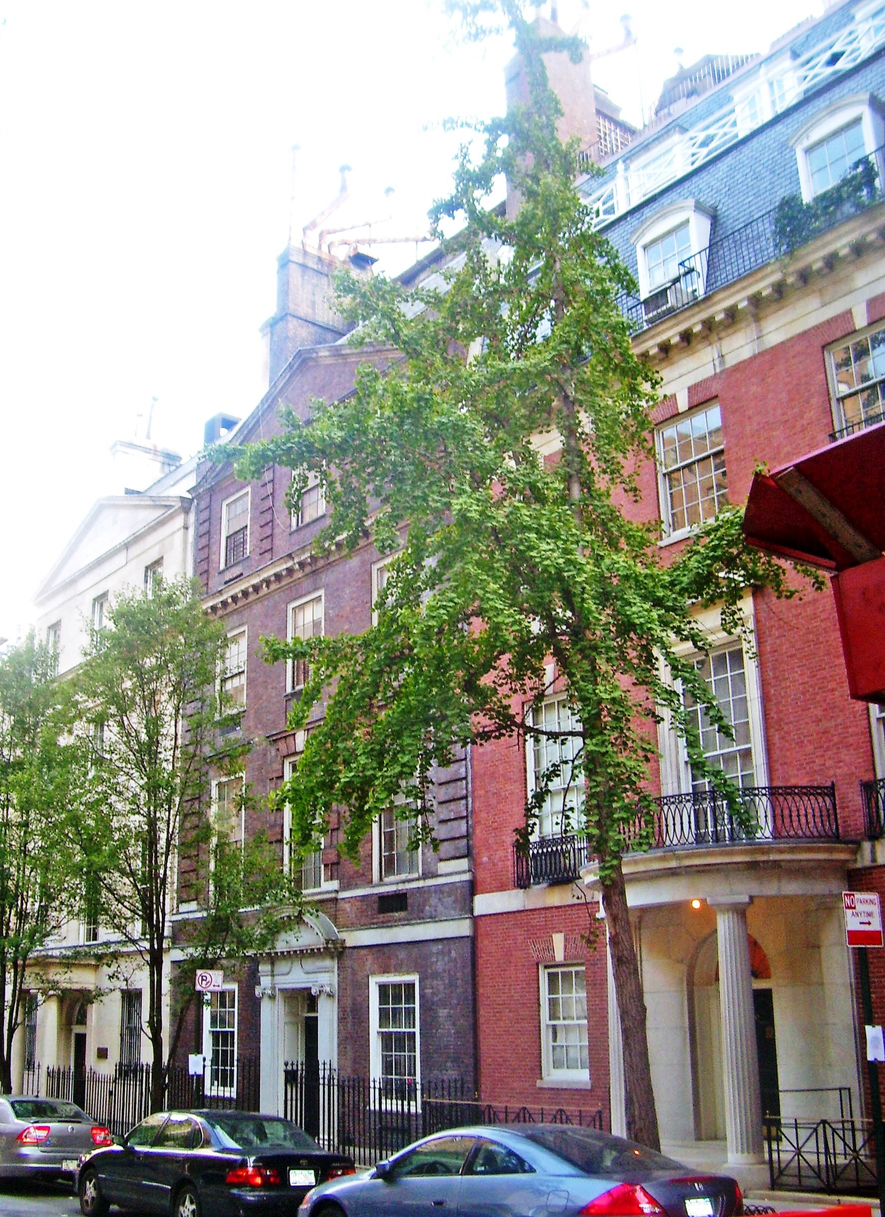 Townhouses at 116–120 E. 80th Street in Manhattan, three of the four listed on the National Register of Historic Places as the East 80th Street Houses.